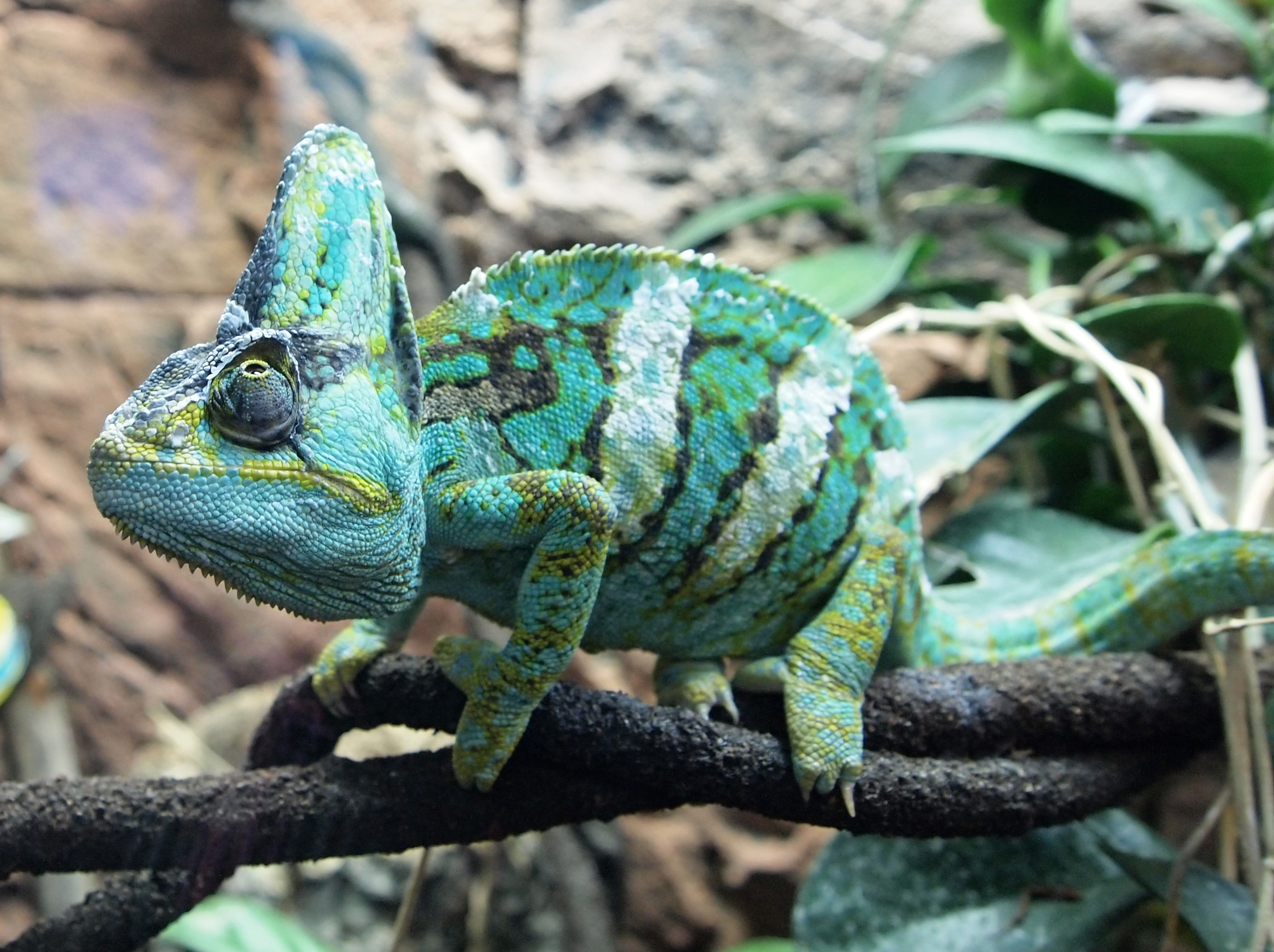 Chamaeleo calyptratus in Särkänniemi Aquarium, Tampere.